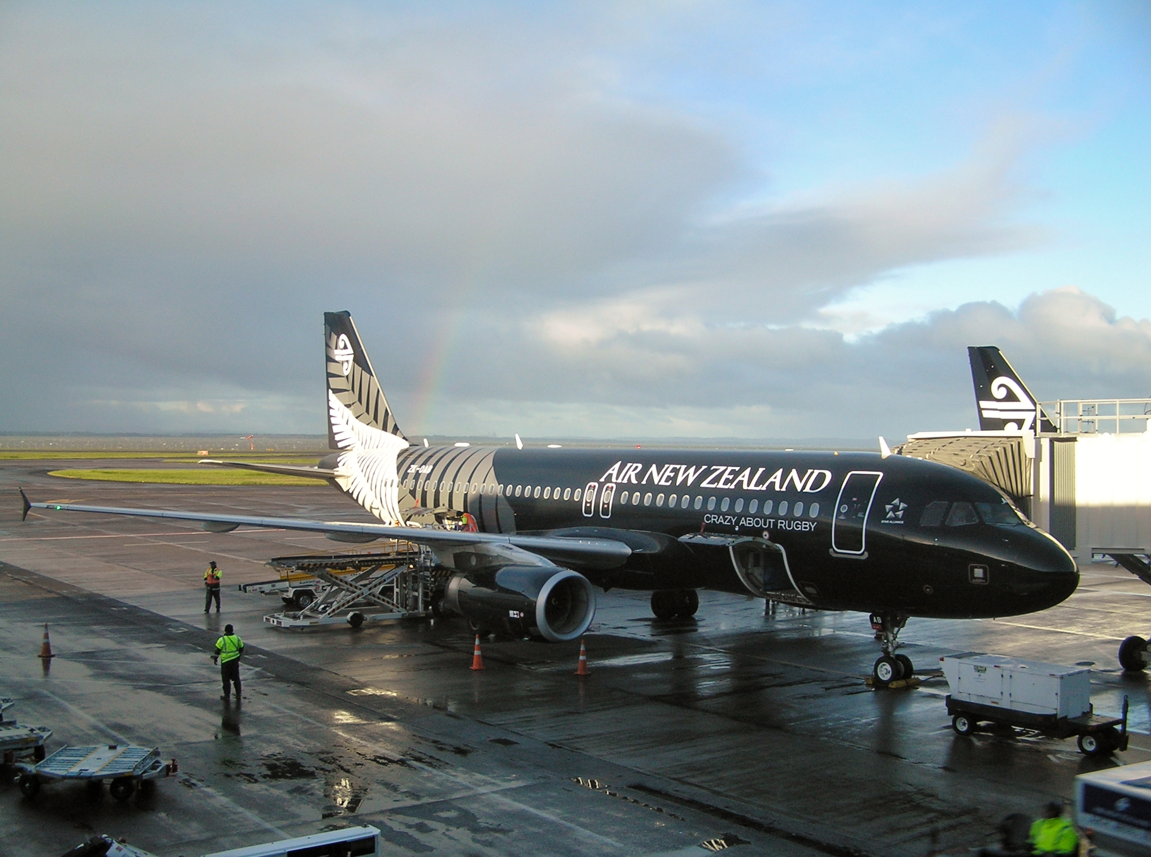 Sitting at the gate at Auckland. My ride to Wellington. 2013-06-22.